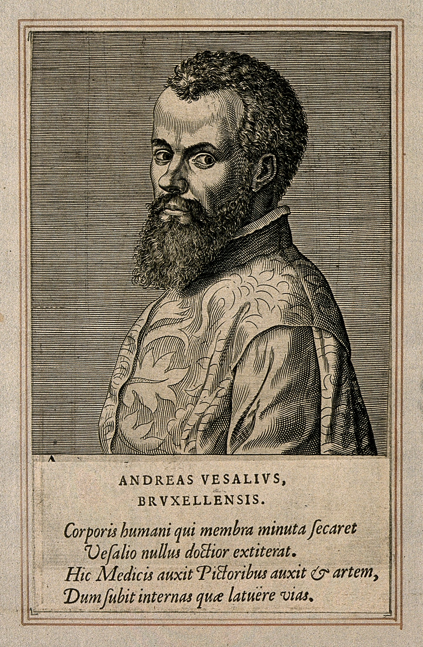 Portrait of Andreas Vesalius (1514 - 1564), Flemish anatomist Iconographic Collections Keywords: Philipp Galle; Andreas Vesalius; Jan Stephanus van Calcar